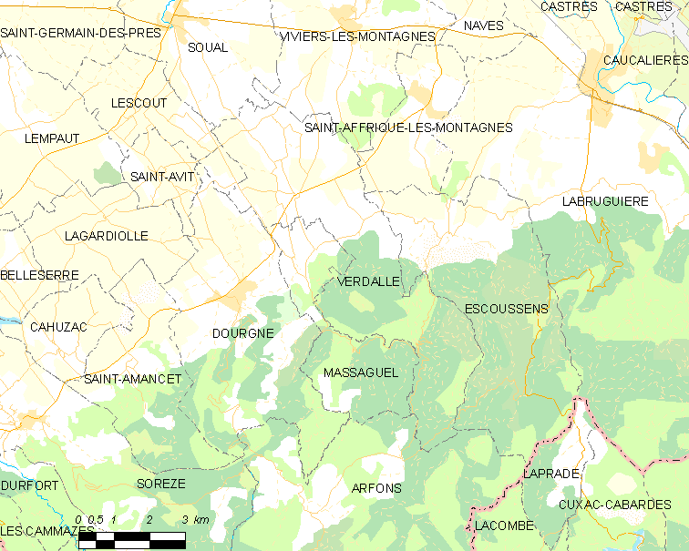 Map of French municipality Verdalle